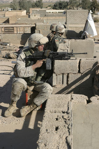 A U.S. Marine and Iraqi Army soldiers watch over the surrounding streets from a rooftop in Karabilah, Iraq, during Operation Steel Curtain on Nov. 11, 2005. The intent of Steel Curtain is to restore Iraqi sovereign control along the Iraq-Syria border and destroy the al Qaeda network operating throughout the Qaim region. DoD photo by Cpl. Neill A. Sevelius, U.S. Marine Corps. (Released) (Released to Public) Location: KARABILAH, AL ANBAR IRQ